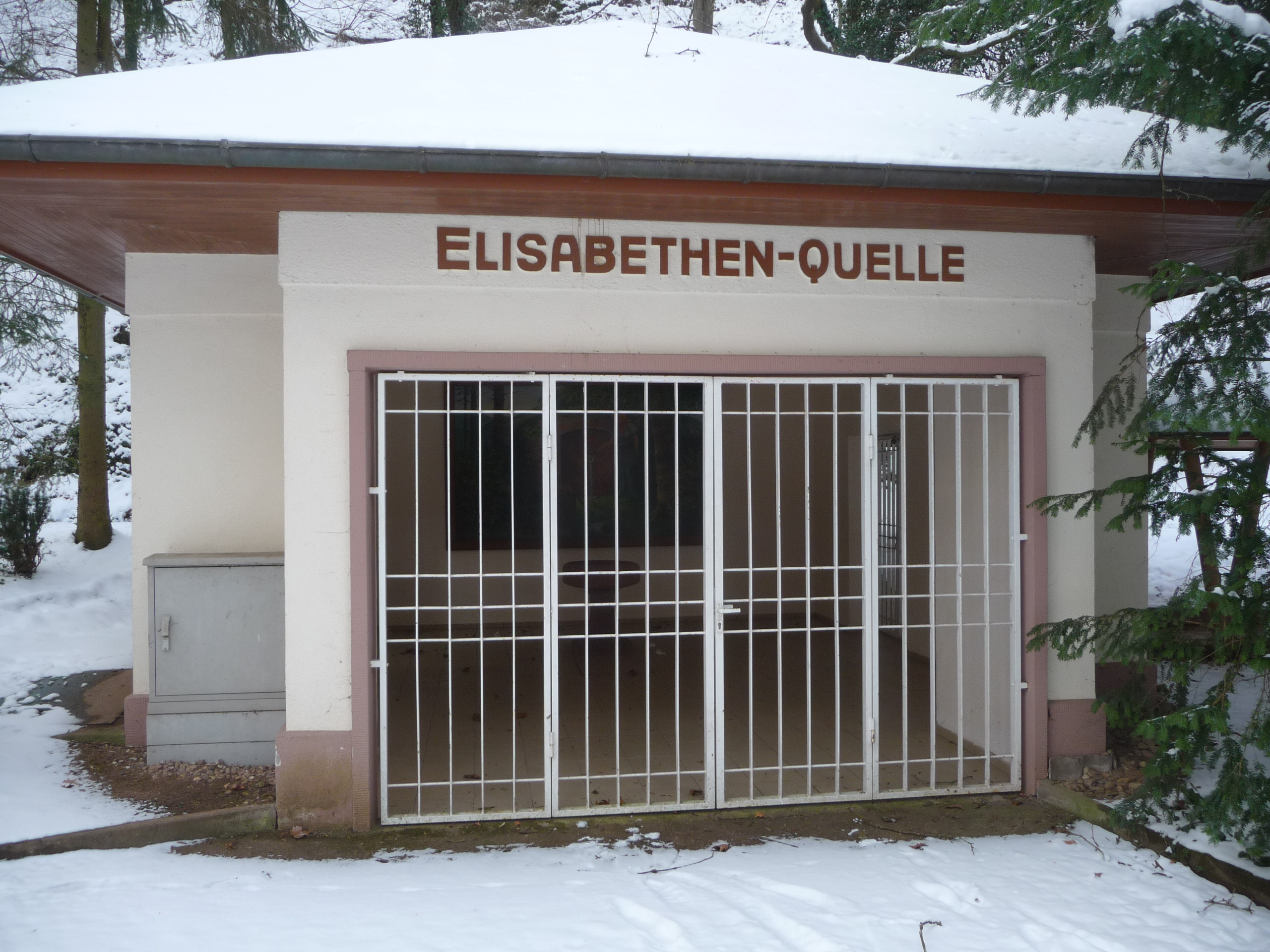 Gaggenau, Germany